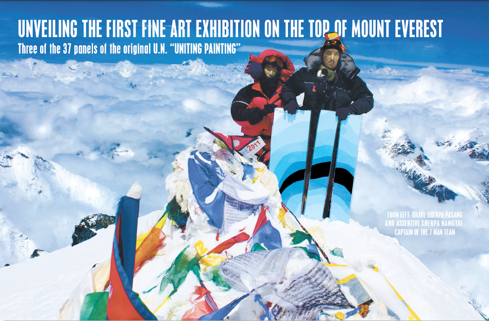 Uniting painting by Ranan Lurie on the Everest